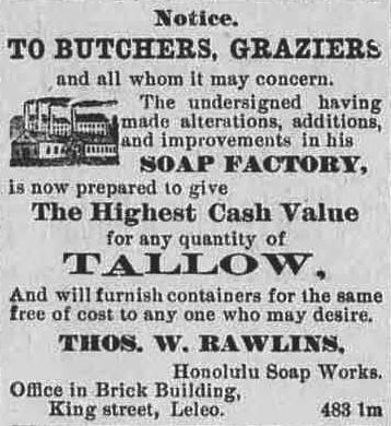 Text: "Notice. To butchers, graziers and all whom it may concern. The undersigned having made alternations, additions, and improvements in his soap factory is now prepared to give the highest cash value for any quality of tallow. And will furnish containers for the same free of cost to any one who may desire. Thos. W. Rawlins, Honolulu Soap Works." The Daily Bulletin, November 28, 1883, Image 1